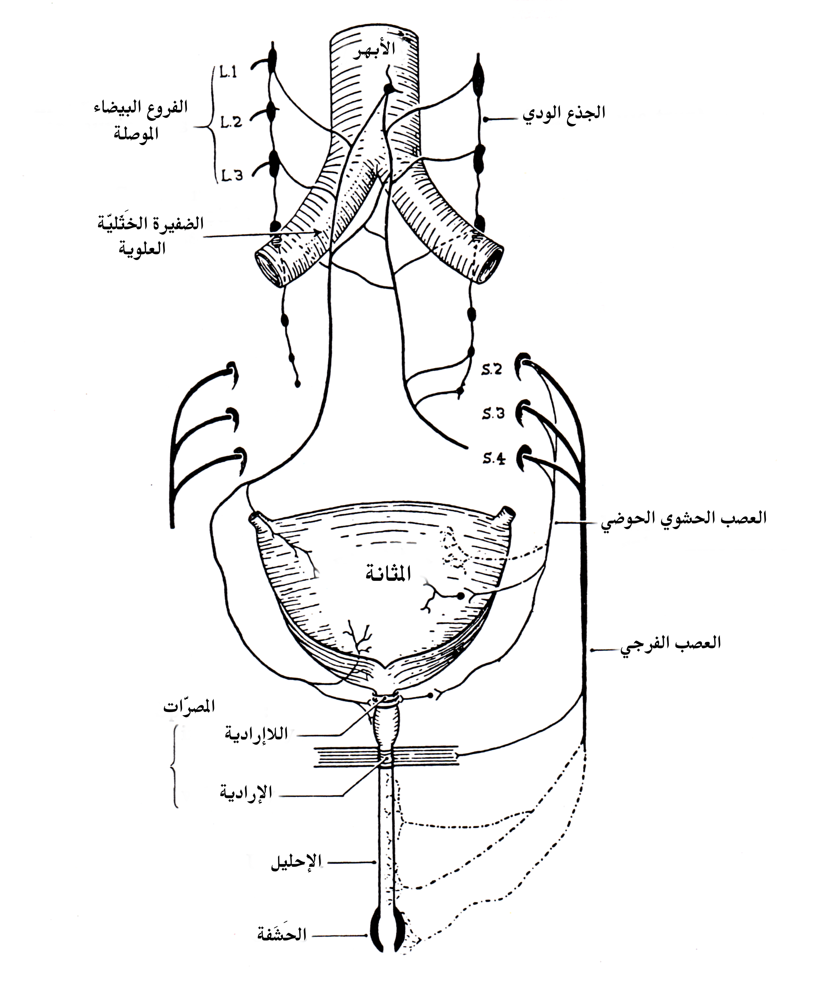 An anatomical illustration from An atlas of anatomy/by regions 1962